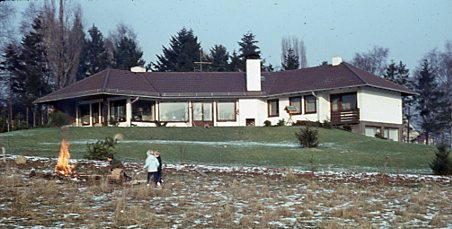 Von Stosch Residence, Kassel-Brasselsberg, Germany, by Architect Claes Knutson